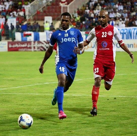 Koffi Mechac in a match against Dhofar Club. 20 February 2015 Al Saada Stadium, Salalah Photographer email id